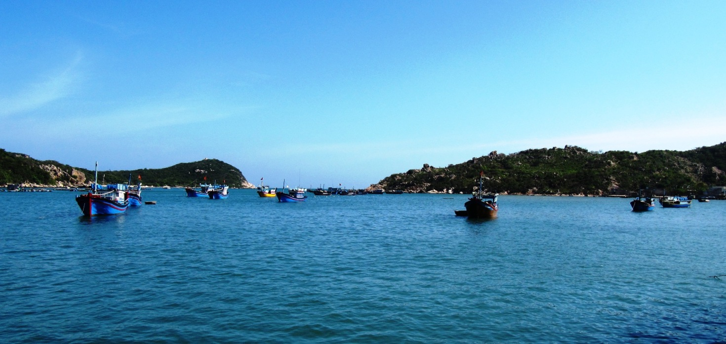 Vinh Hy Beach, Ninh Thuan province, Vietnam'2012. Look to the Sea.